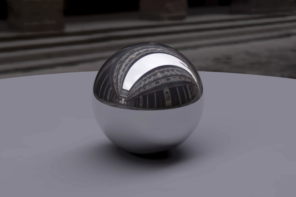 HDR Rendered example of source images using Photomatix